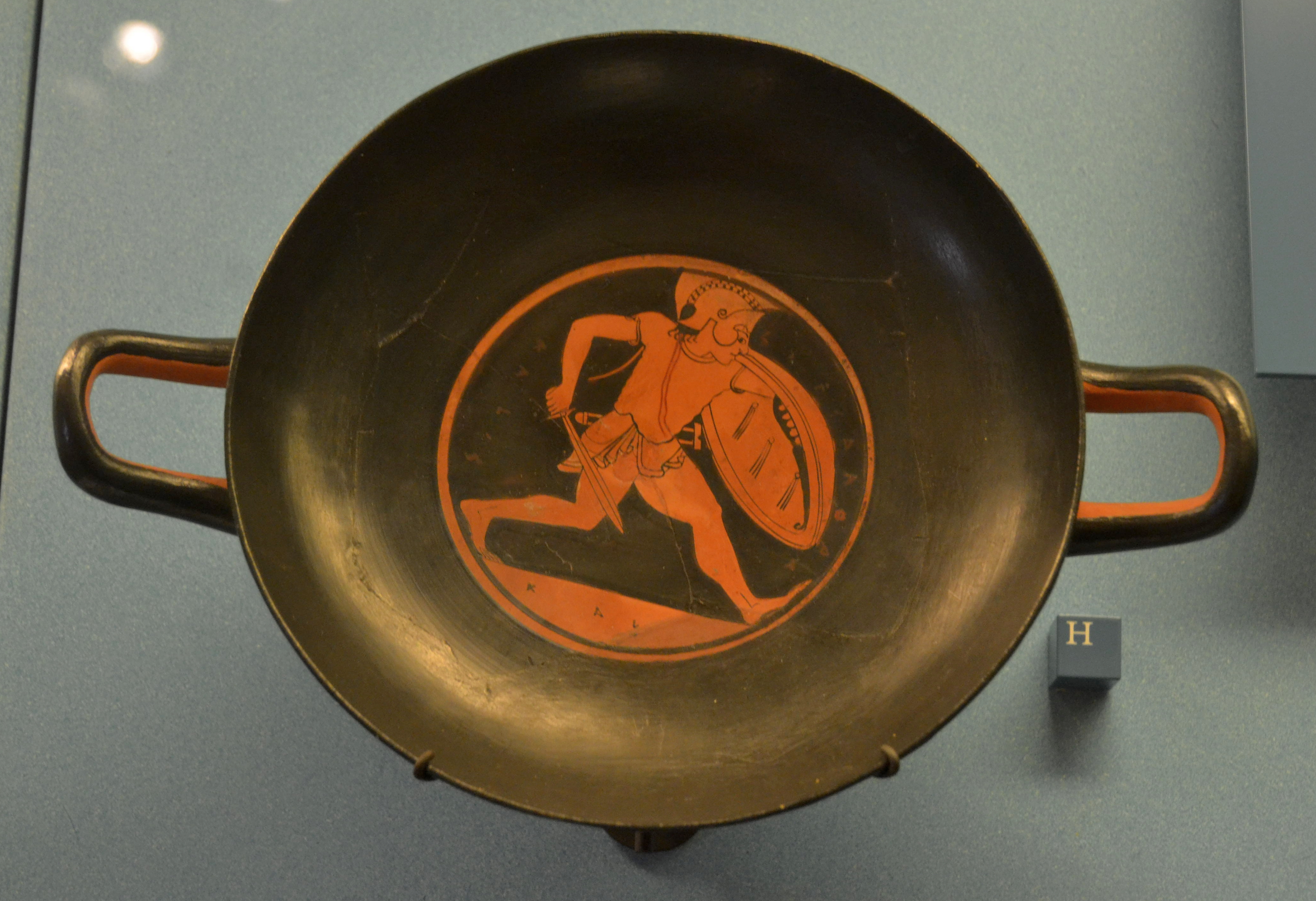 Fabric: ATHENIAN Technique: RED-FIGURE Shape Name: CUP C Provenance: ITALY, ETRURIA Date: -525 to -475 Inscriptions: Kalos/Kale: STESAGORA KALOS STESAGORAS Attributed To: Recalls SALTING P by BEAZLEY Decoration: A,B: UNDECORATED I: WARRIOR Current Collection: Copenhagen, National Museum: 3879 Publication Record: Beazley, J.D., Attic Red-Figure Vase-Painters, 2nd edition (Oxford, 1963): 1609 Beazley, J.D., Attic Red-Figure Vase-Painters, 2nd edition (Oxford, 1963): 179 Burn, L. and Glynn, R., Beazley Addenda (Oxford, 1982): 92 Carpenter, T.H., with Mannack, T., and Mendonca, M., Beazley Addenda, 2nd edition (Oxford, 1989): 185 Corpus Vasorum Antiquorum: COPENHAGEN, NATIONAL MUSEUM 3, 109, PL.(141) 139.1A, 139.1B View Whole CVA Plates PHOTOGRAPH(S) IN THE BEAZLEY ARCHIVE: 1 (I) Revue Archeologique: 1972, 161, FIG.15 (DRAWING OF I)